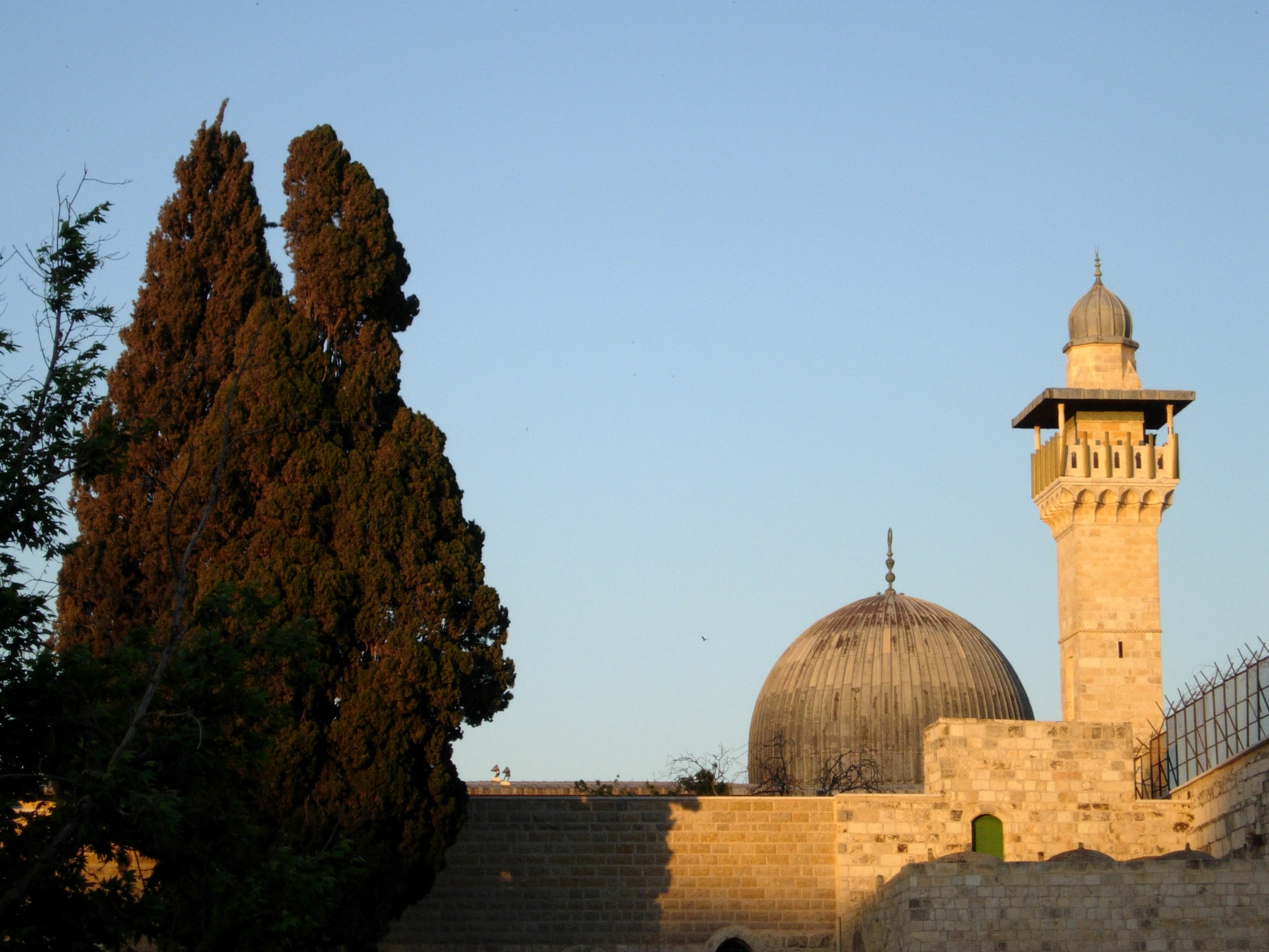 Al-Aqsa Mosque from the Western Wall Plaza.